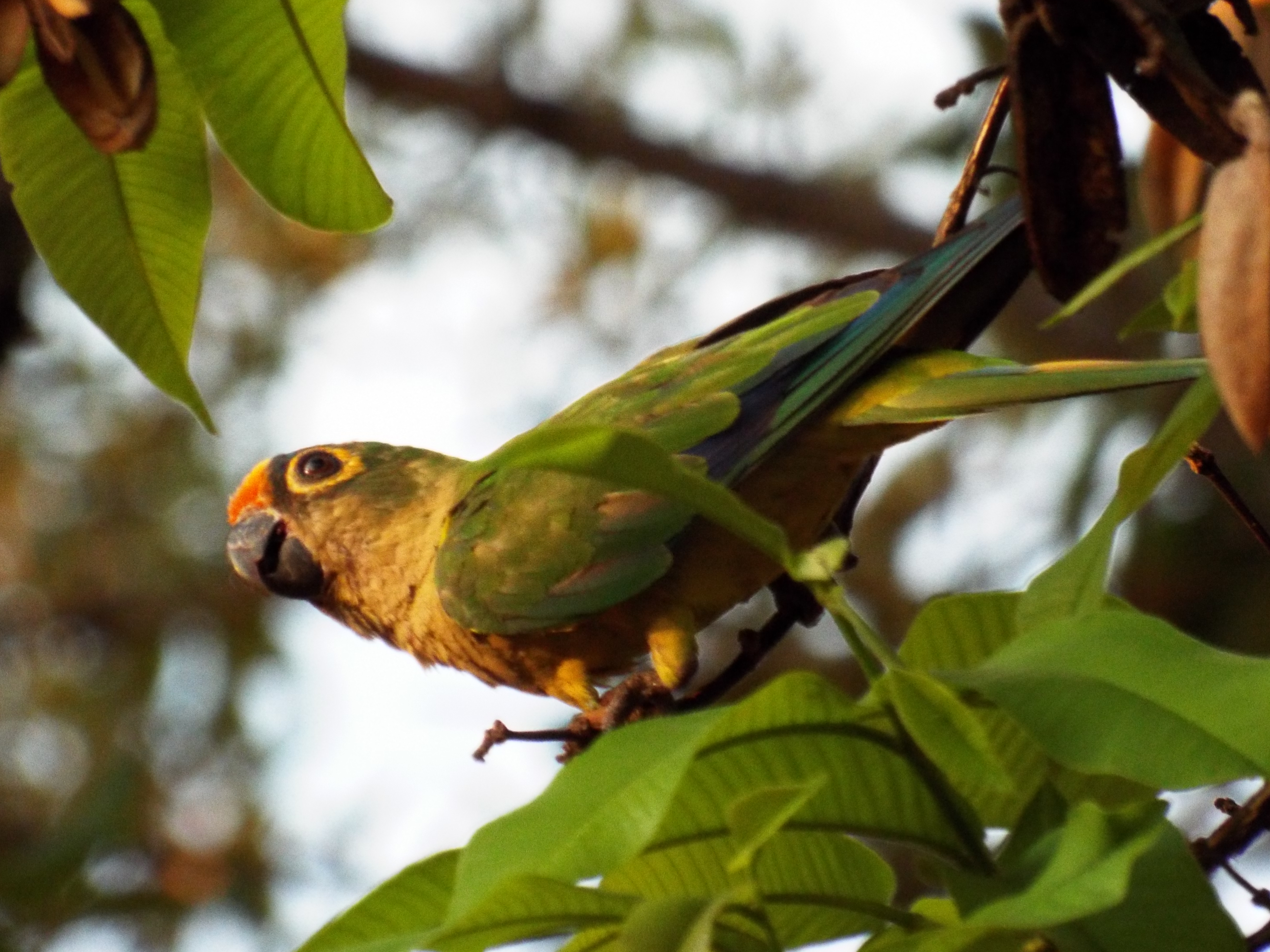 Ave presente em muitas regiões do Brasil.